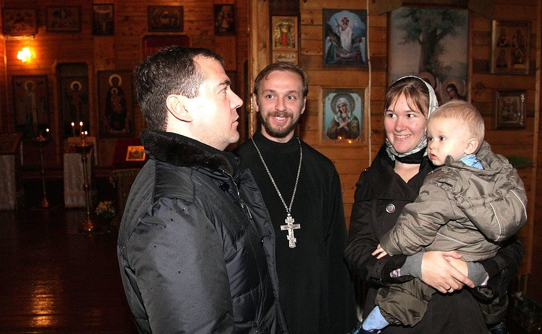 Visiting a church on Kunashir Island.